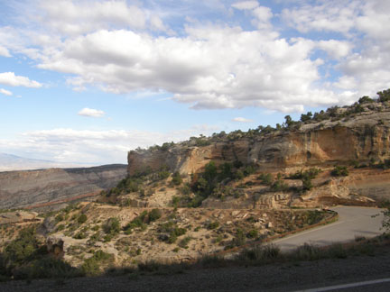 Serpent's Trail and Rim Rock Drive in Colorado National Monument, Colorado, USA